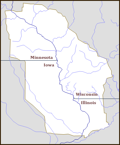 Map of the Upper Mississippi River from its confluence with the St. Croix River at Prescott, Wisconsin 44°44′45″N 92°48′10″W / 44.745833°N 92.802778°W downstream to its confluence with the Rock River at Rock Island, Illinois 41°28′56″N 90°37′05″W / 41.482310°N 90.618094°W highlighting the 29,914 square mile (77,477 square kilometer) Upper Mississippi River Valley American Viticultural Area in northwest Illinois, northeast Iowa, southeast Minnesota and southwest Wisconsin.